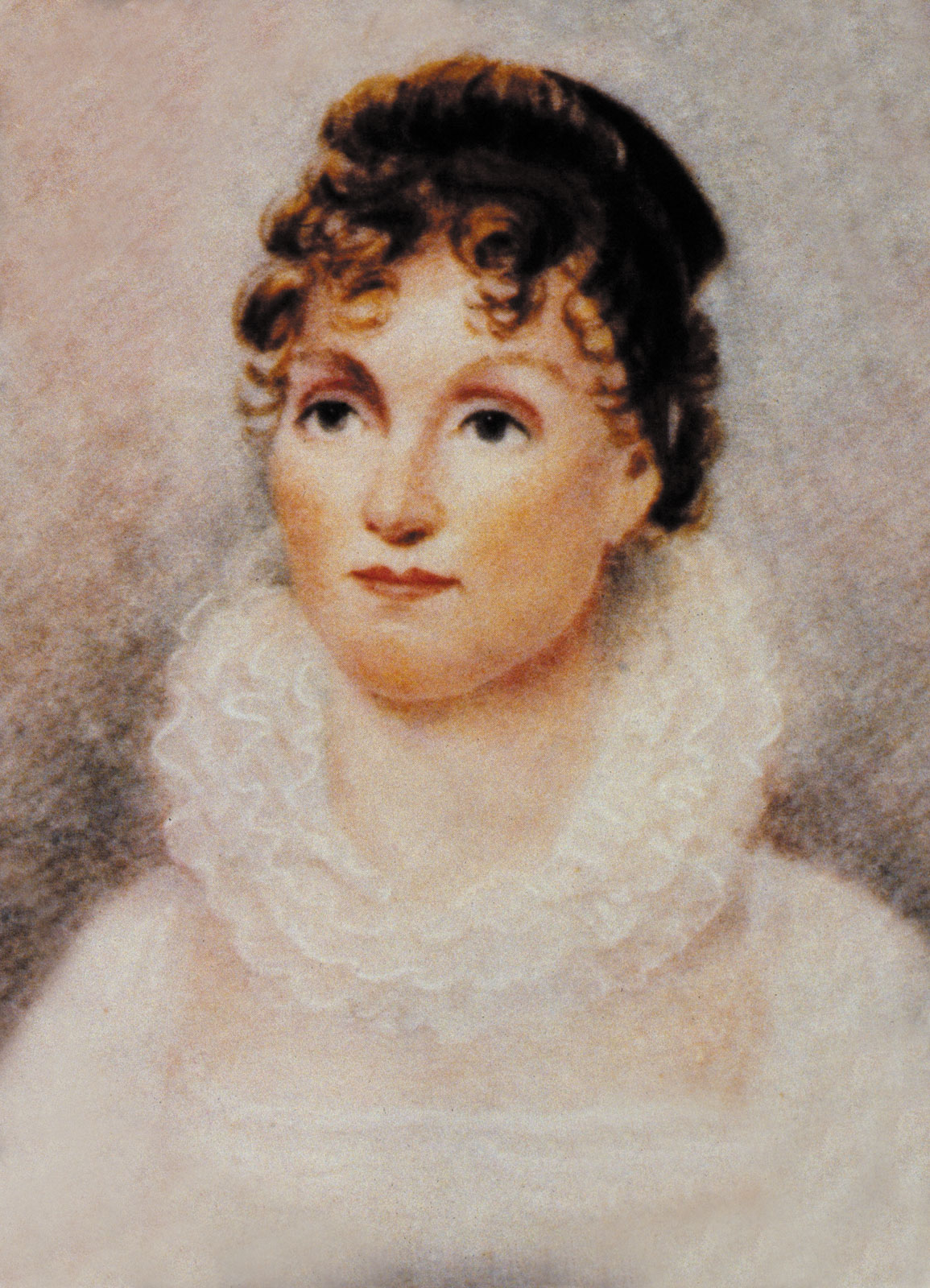 Miniature by an unknown artist